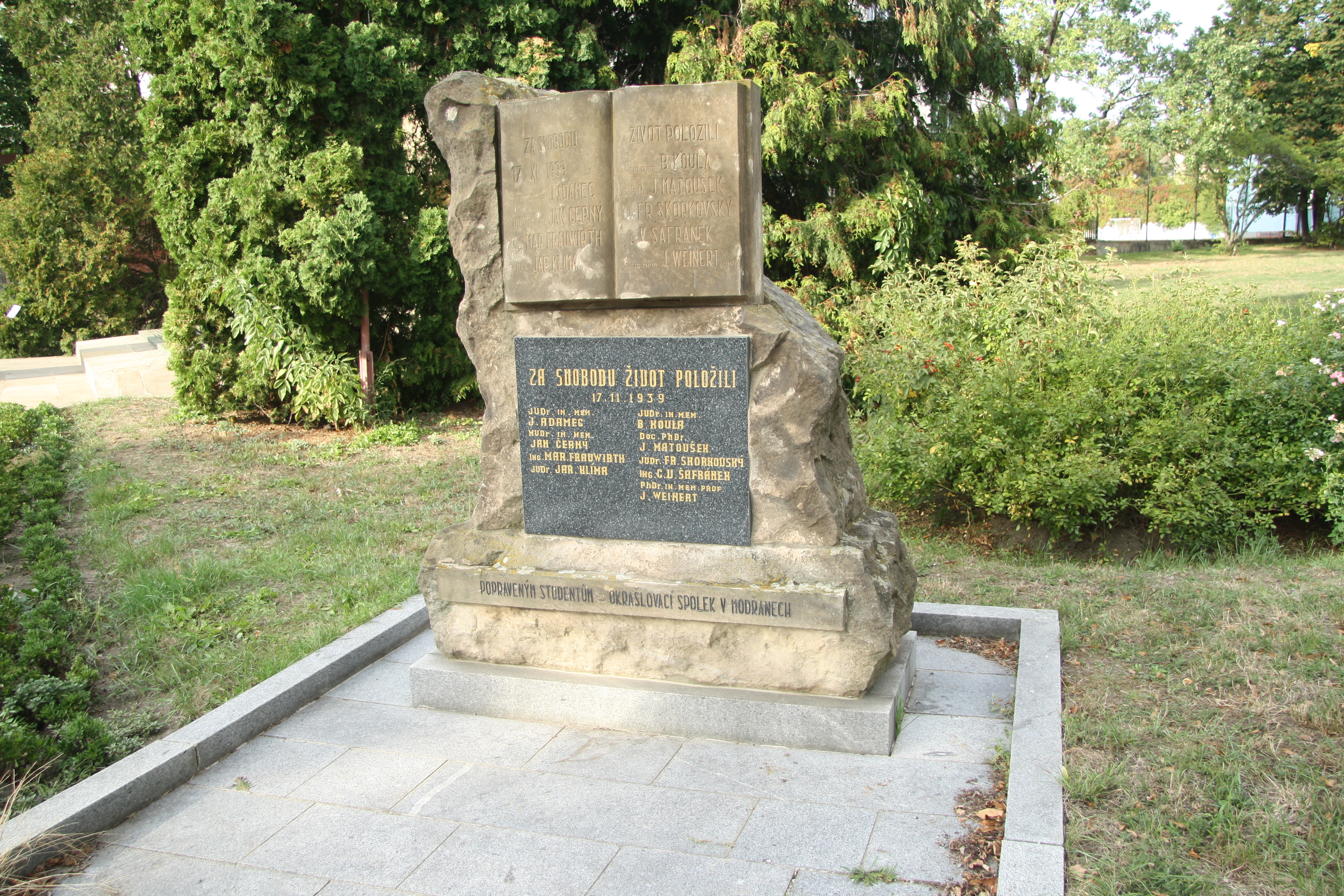 Memorial of executed students near ZŠ T. G. Masaryka at U Modřanské školy street in Prague-Modřany, Prague.